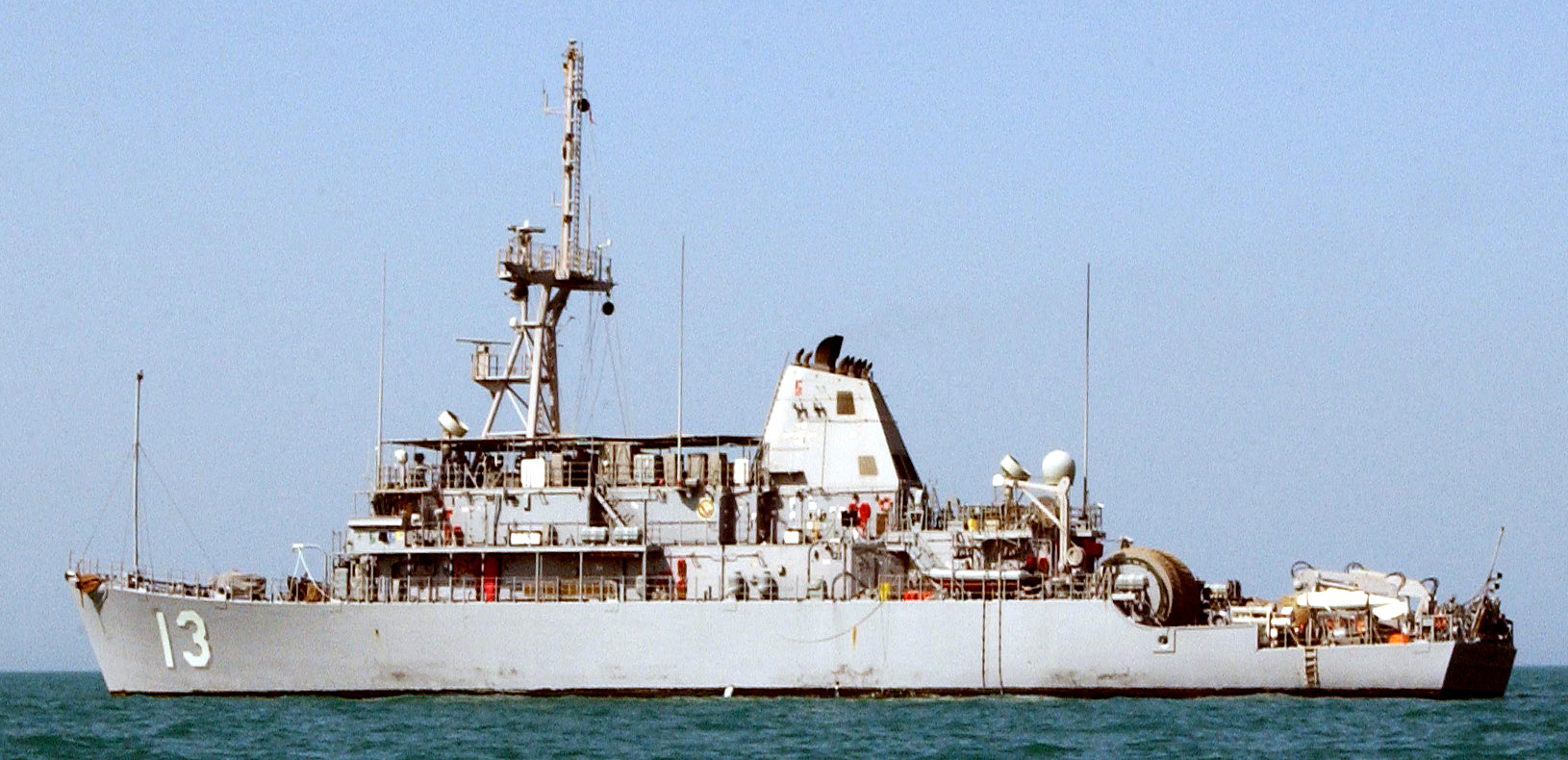 040805-N-4374S-003 - The mine countermeasures ship USS Dextrous (MCM-13) steams through the waters of the Persian Gulf. Dextrous is forward deployed in support of Operation Iraqi Freedom (OIF).(RELEASED)